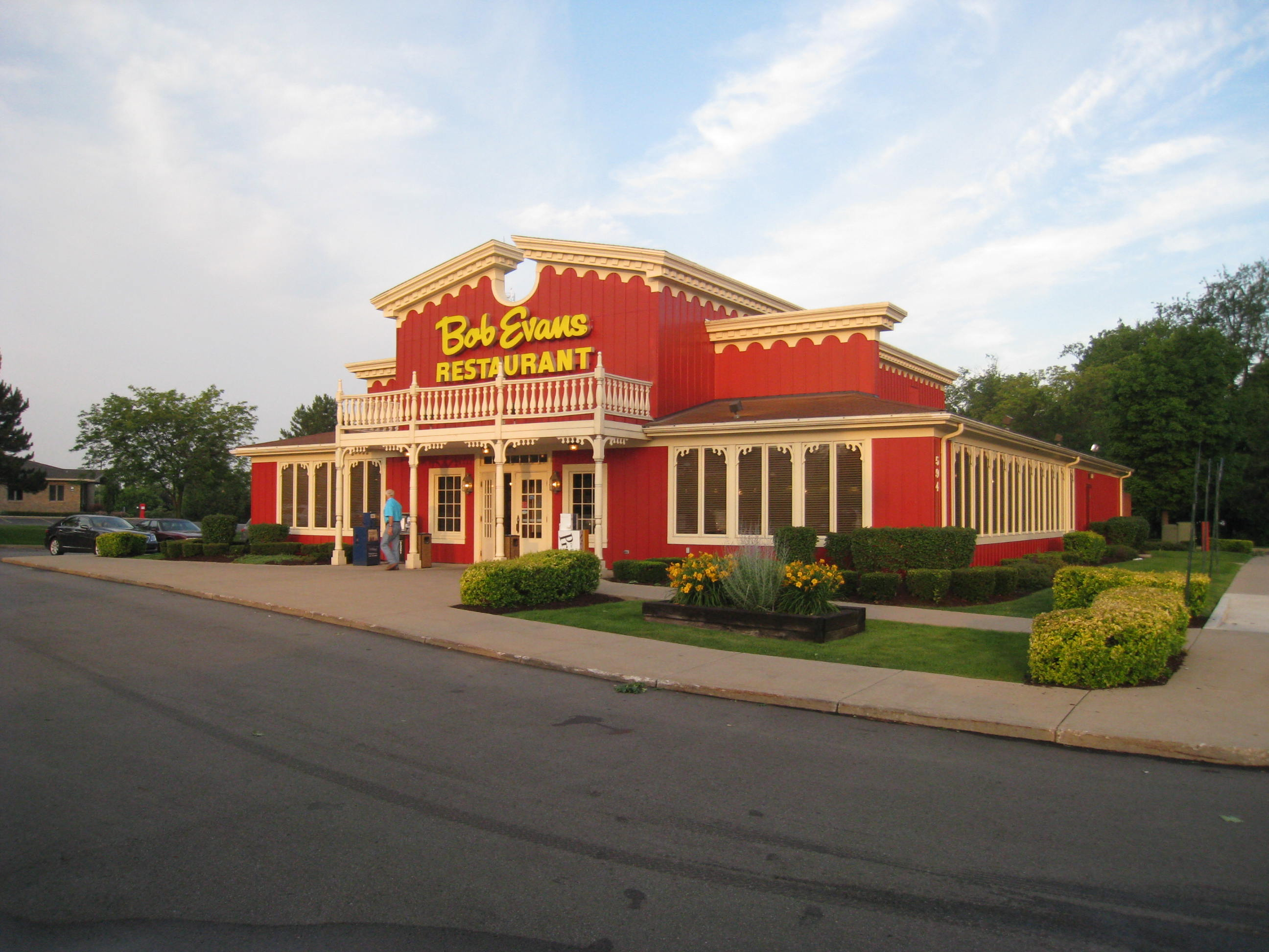 Bob Evans, Holland, Michigan